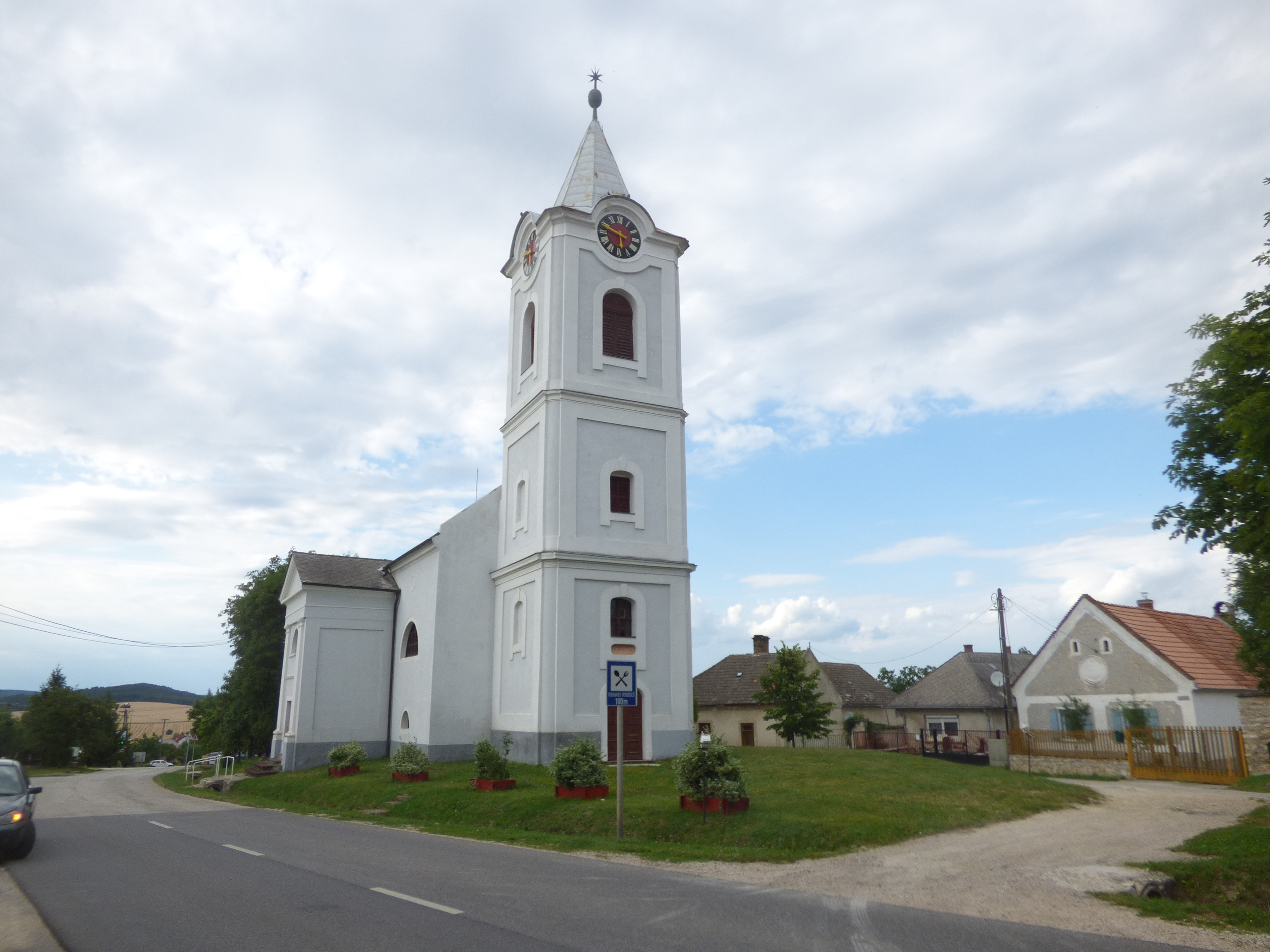 Tótvázsony, református templom